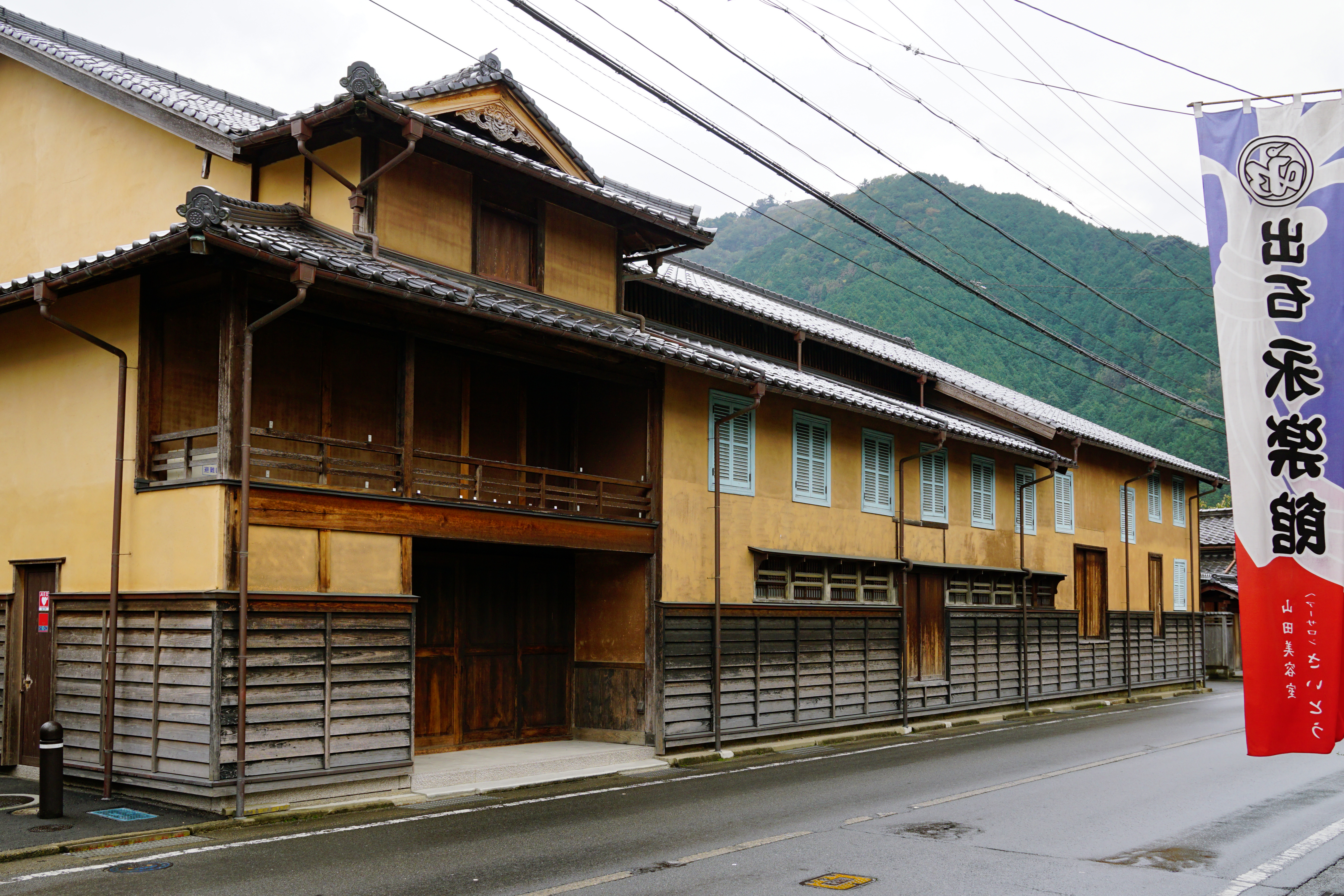 Eirakukan in Toyooka, Hyogo prefecture, Japan